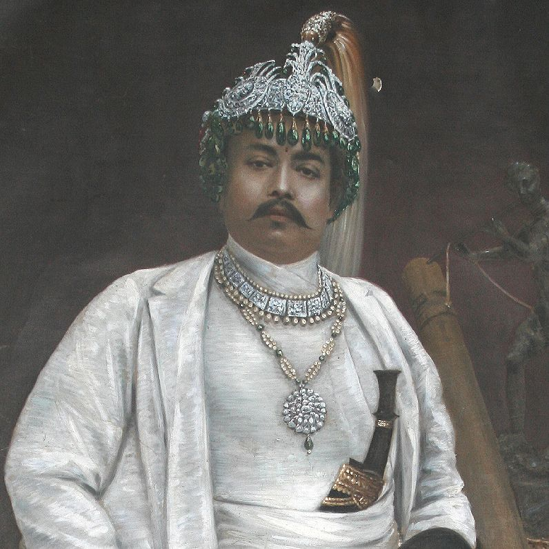 Dev Shamsher Jang Bahadur Rana